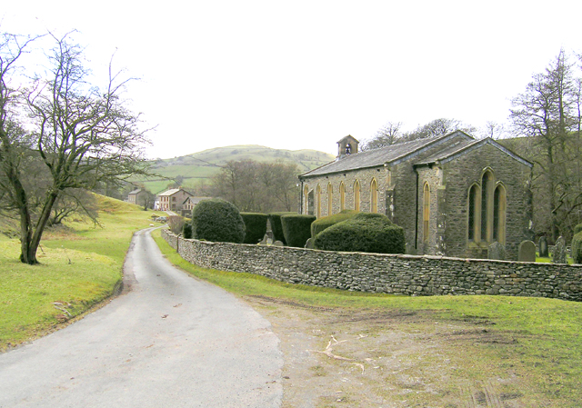 View southwest past Holy Trinity parish church, Howgill, Cumbria, toward Thwaite. This view is in the opposite direction from 150938.